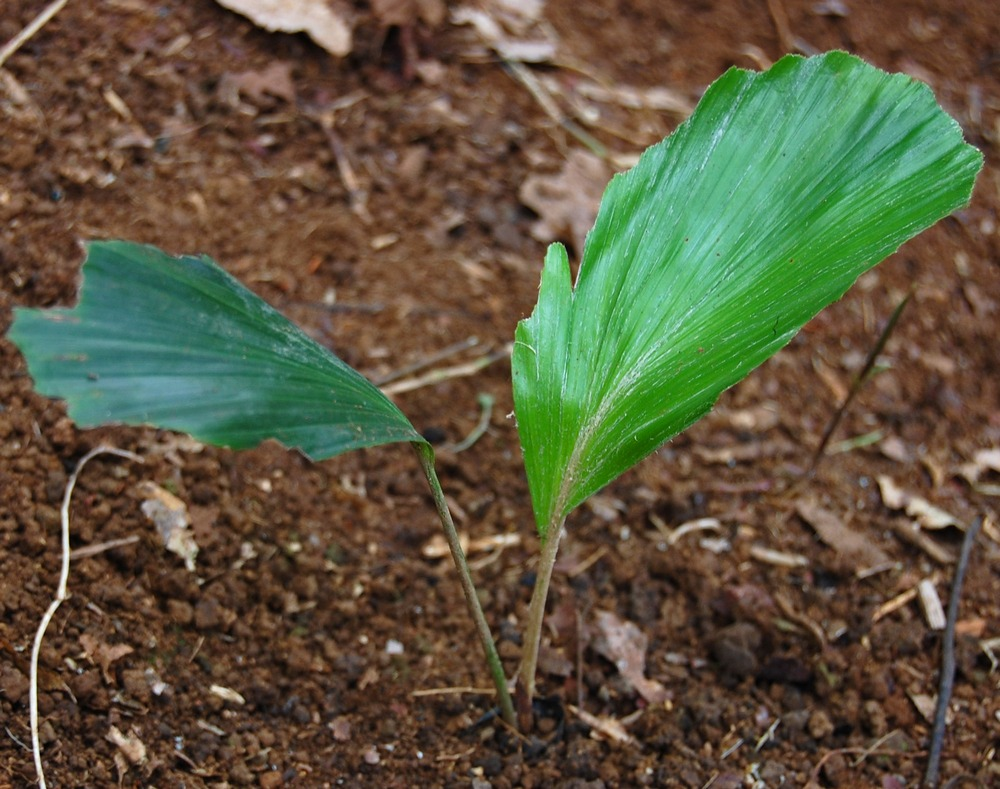 Arenga pinnata seedling. Sirnarasa, Sukabumi, West Java, Indonesia